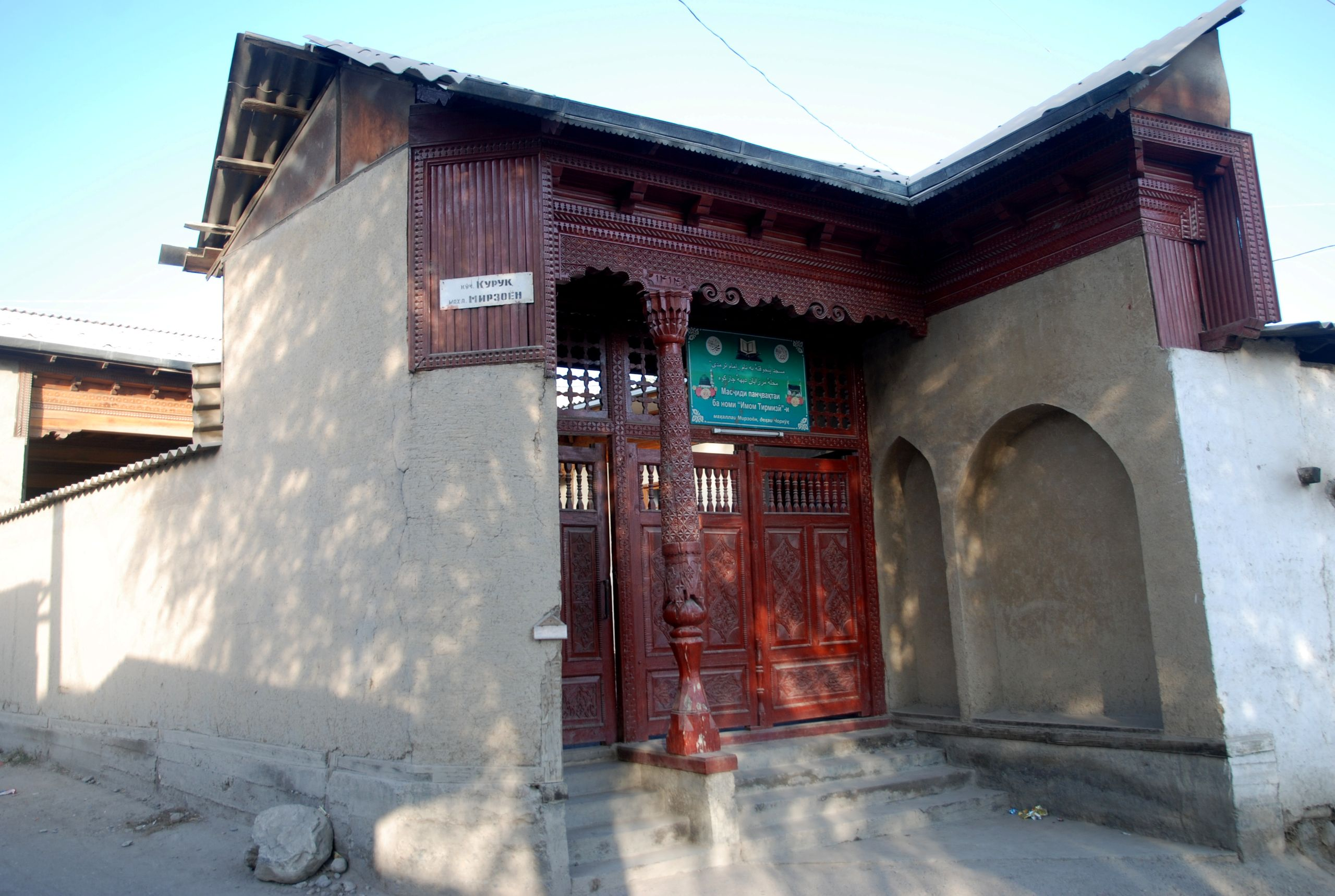 Chorku, Isfara district, mosque